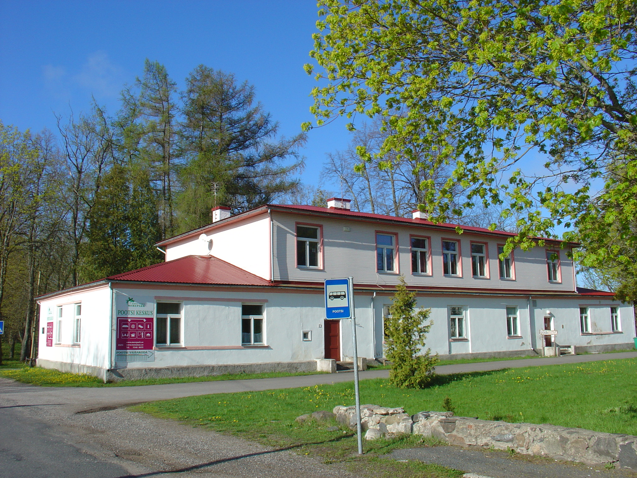 Pootsi village center